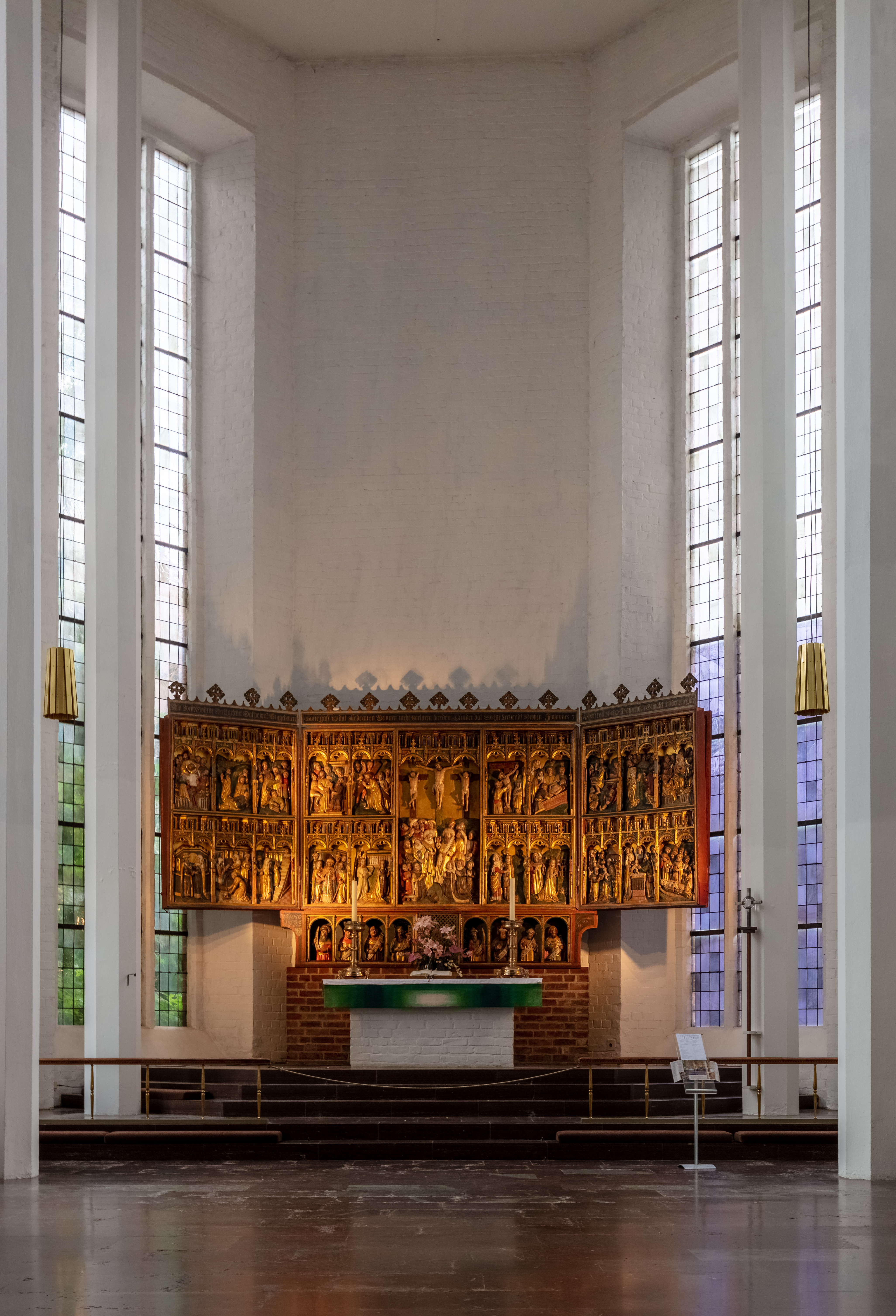 Nicholas church, Kiel, Germany